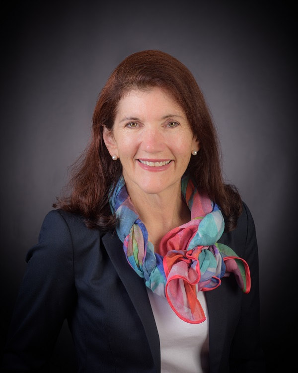 Margaret D. Klein, Dean, College of Leadership and Ethics